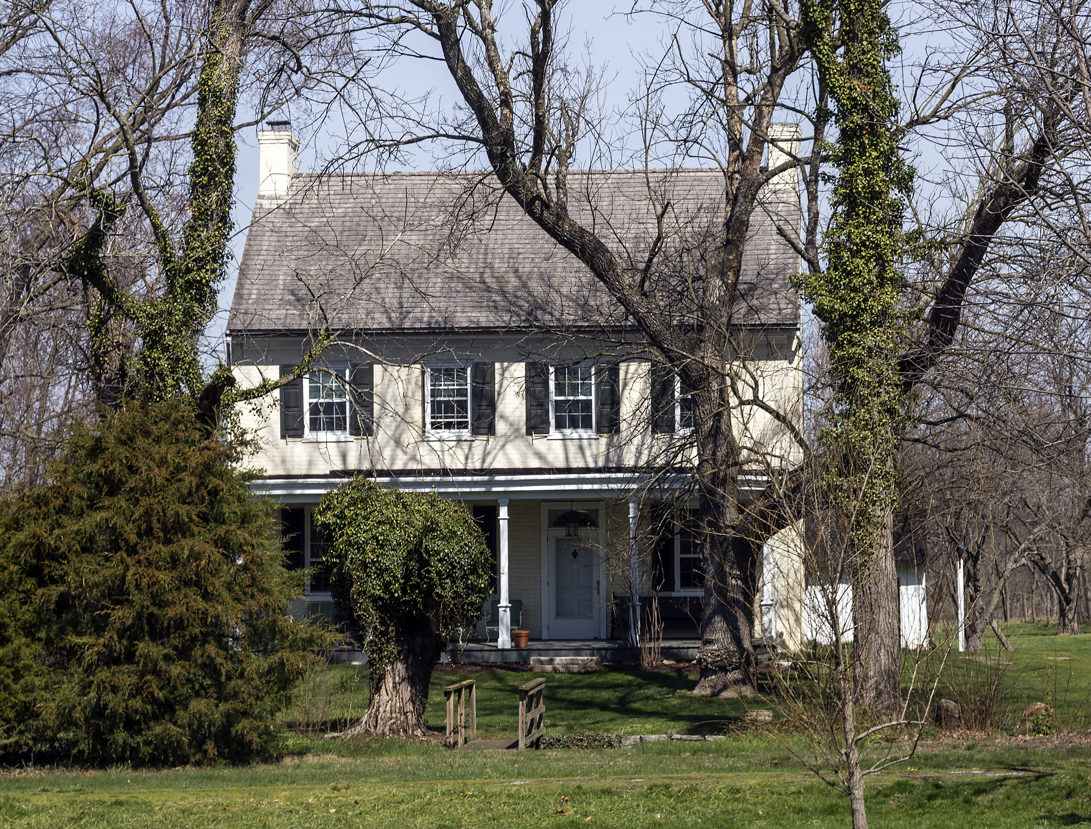 The Willows, near Smithsburg, Maryland, USA